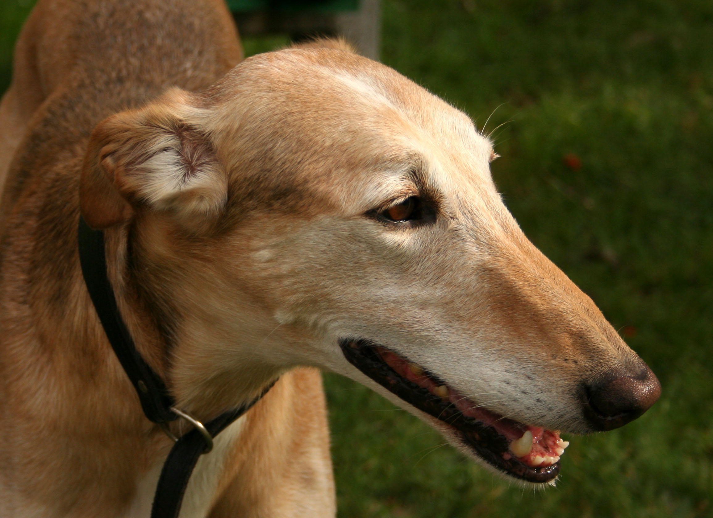 Chart Polski at a dog show